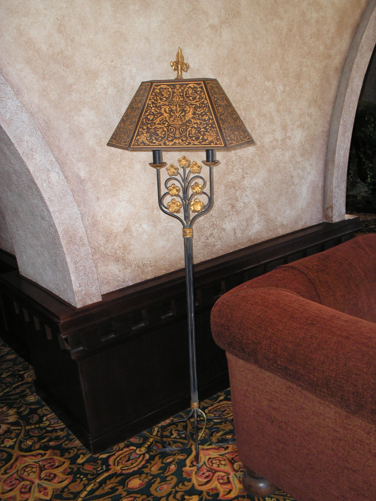 Ornate floor lamp, from the Banff Springs Hotel, Banff, AB, Canada.